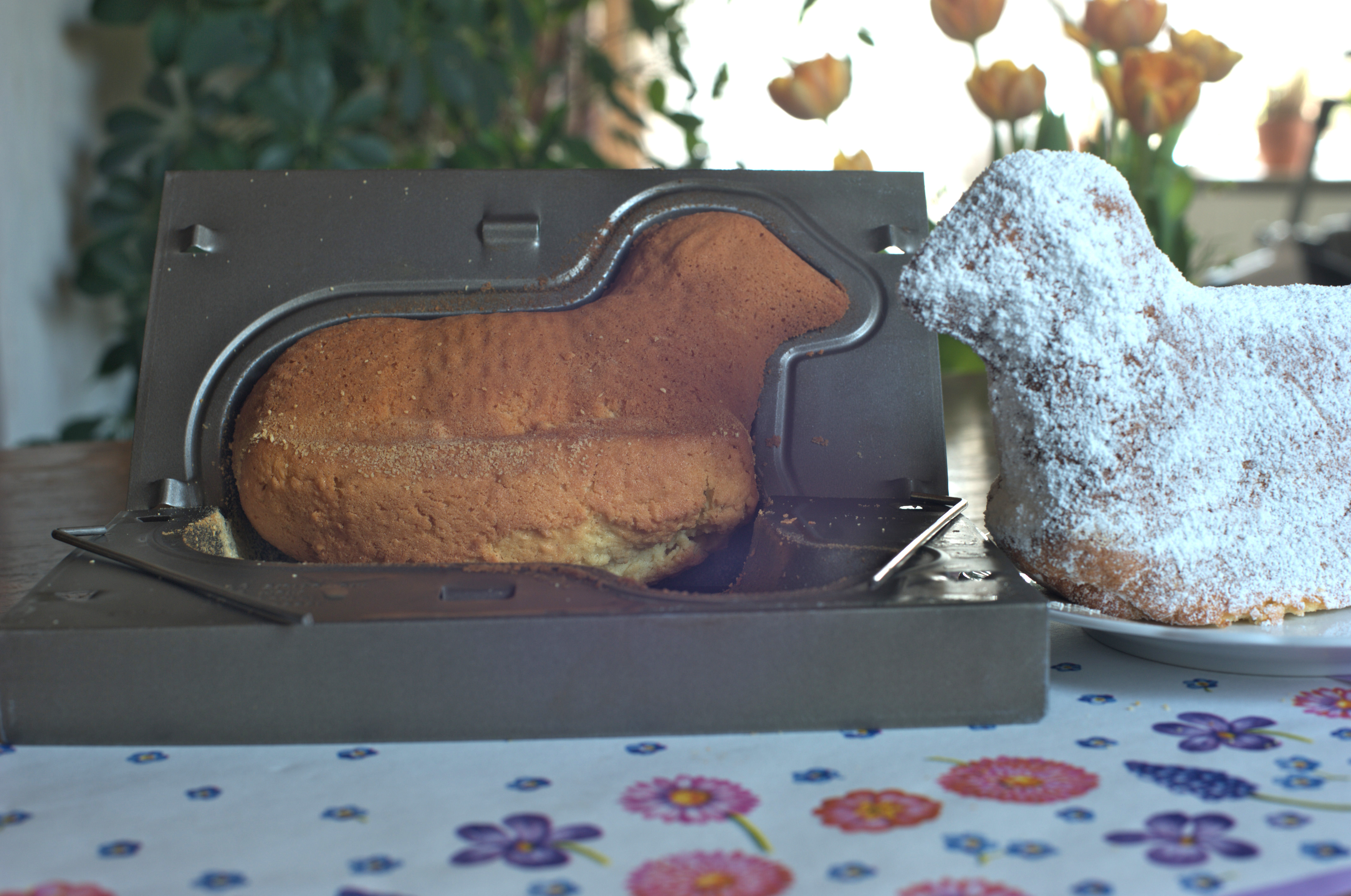 Easter Lamb made from Pound cake